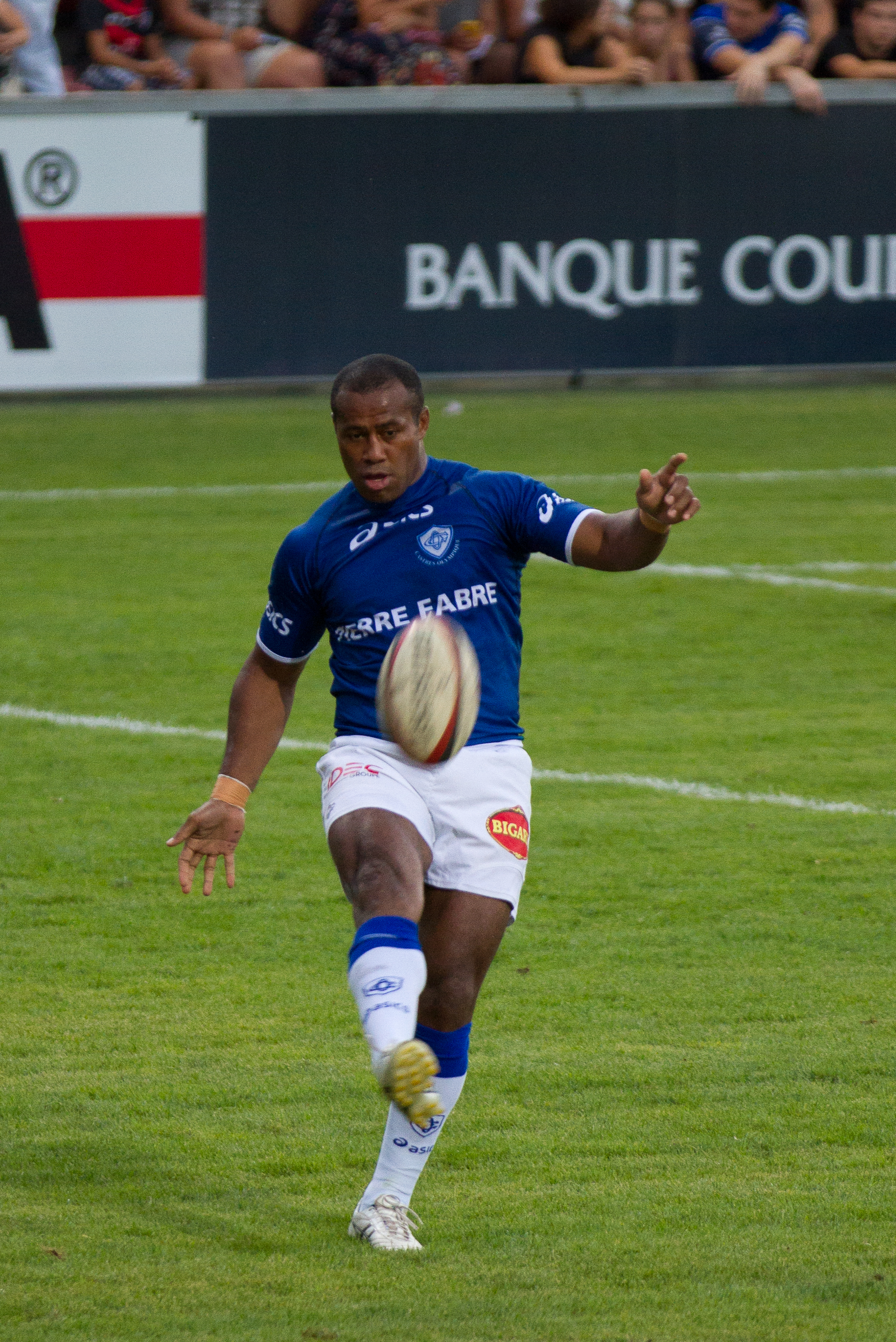 Top 14 — 17 August 2012, Stade Ernest-Wallon. Match between: Stade toulousain — Castres olympique